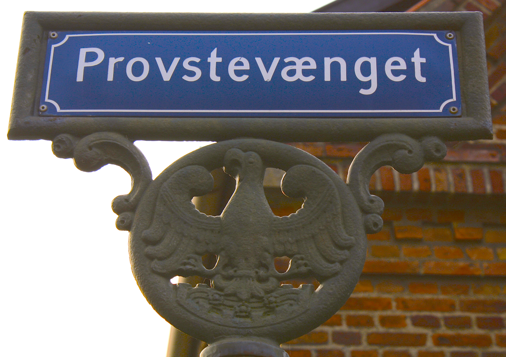 Roskilde, Denmark: street sign.